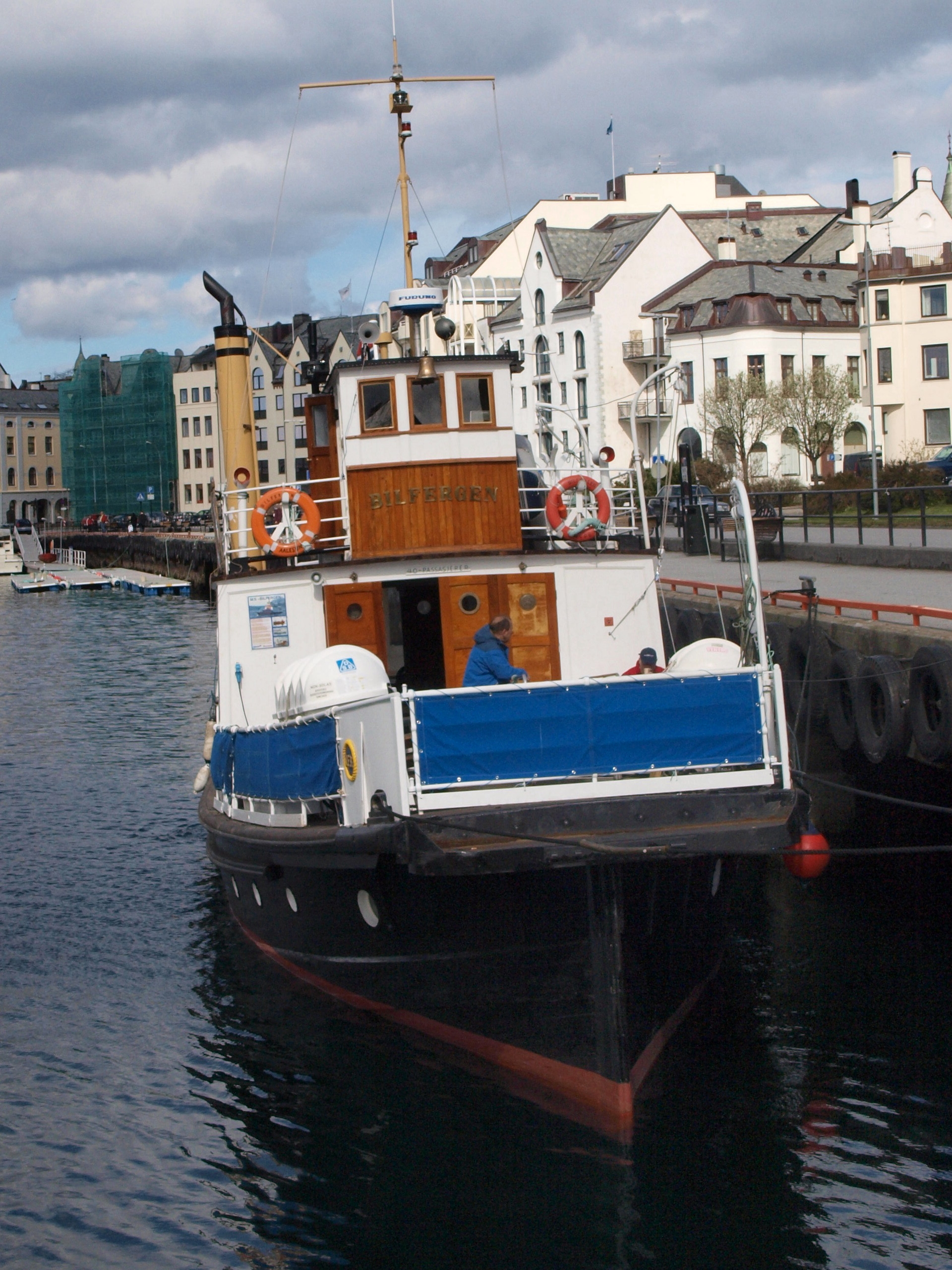 MF «Bilfergen»